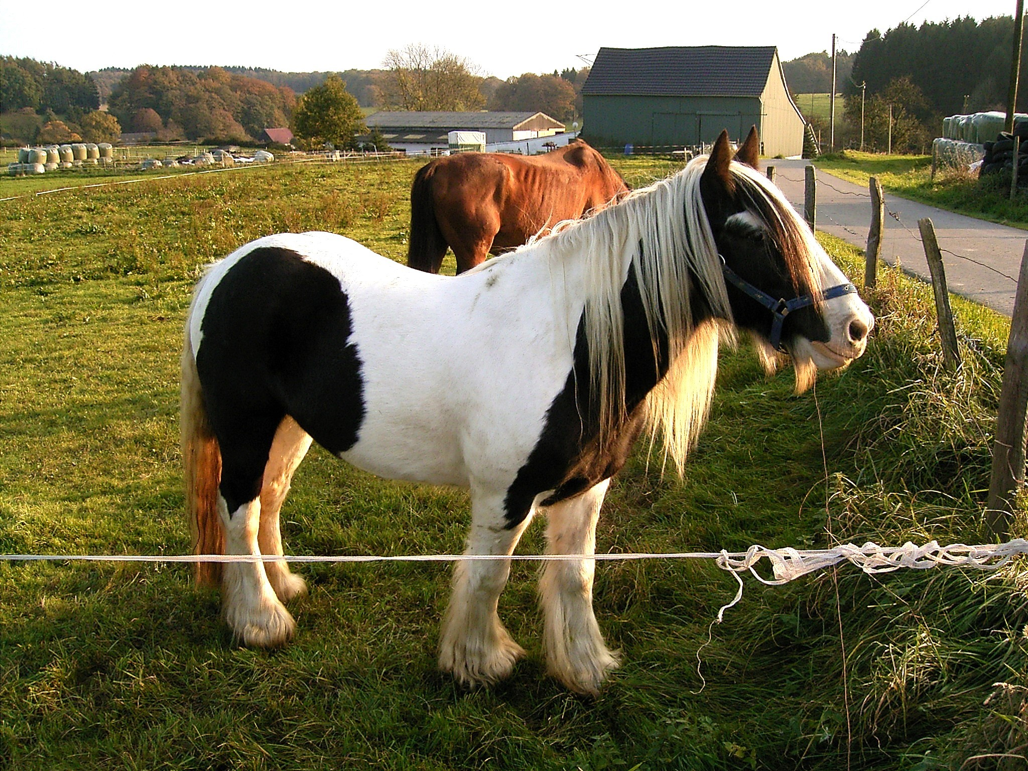 Description: Radevormwald Source: self-made Date: created 19. Nov. 2007 Author: Frank Vincentz Permission: GFDL (self made)